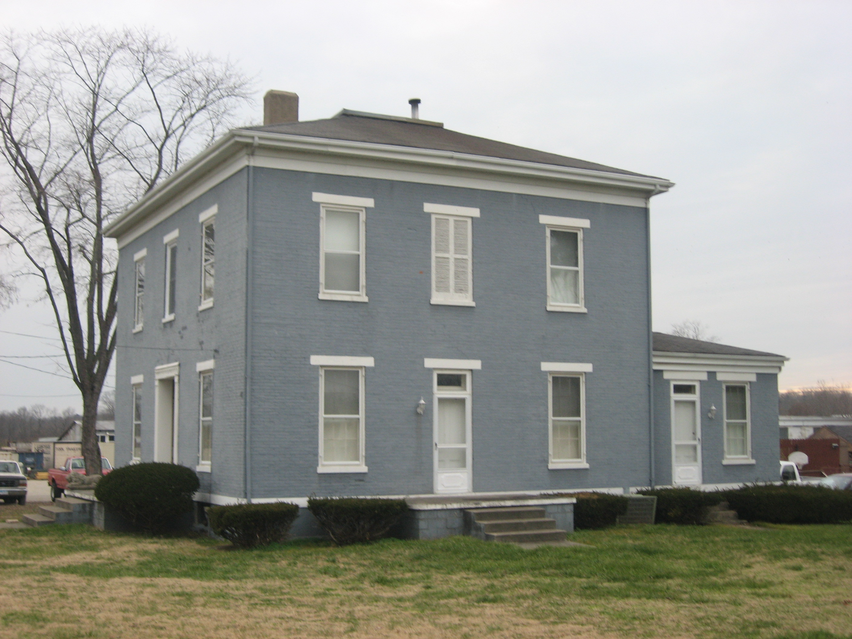 Front and southern side of the Samuel Augspurger House, located at 1659 Wayne-Madison Road in Woodsdale, Ohio, United States. Built in 1868, it is listed on the National Register of Historic Places.